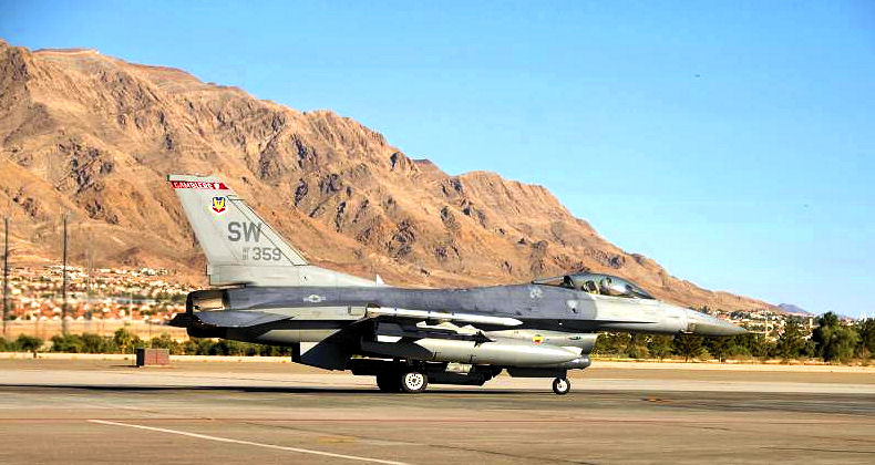 USAF F-16C block 50 #91-0359 from the 77th FS taxis back from a training mission at Red Flag 09-4 on July 14th, 2009. [USAF photo by 2nd Lt. Emily Chilson]